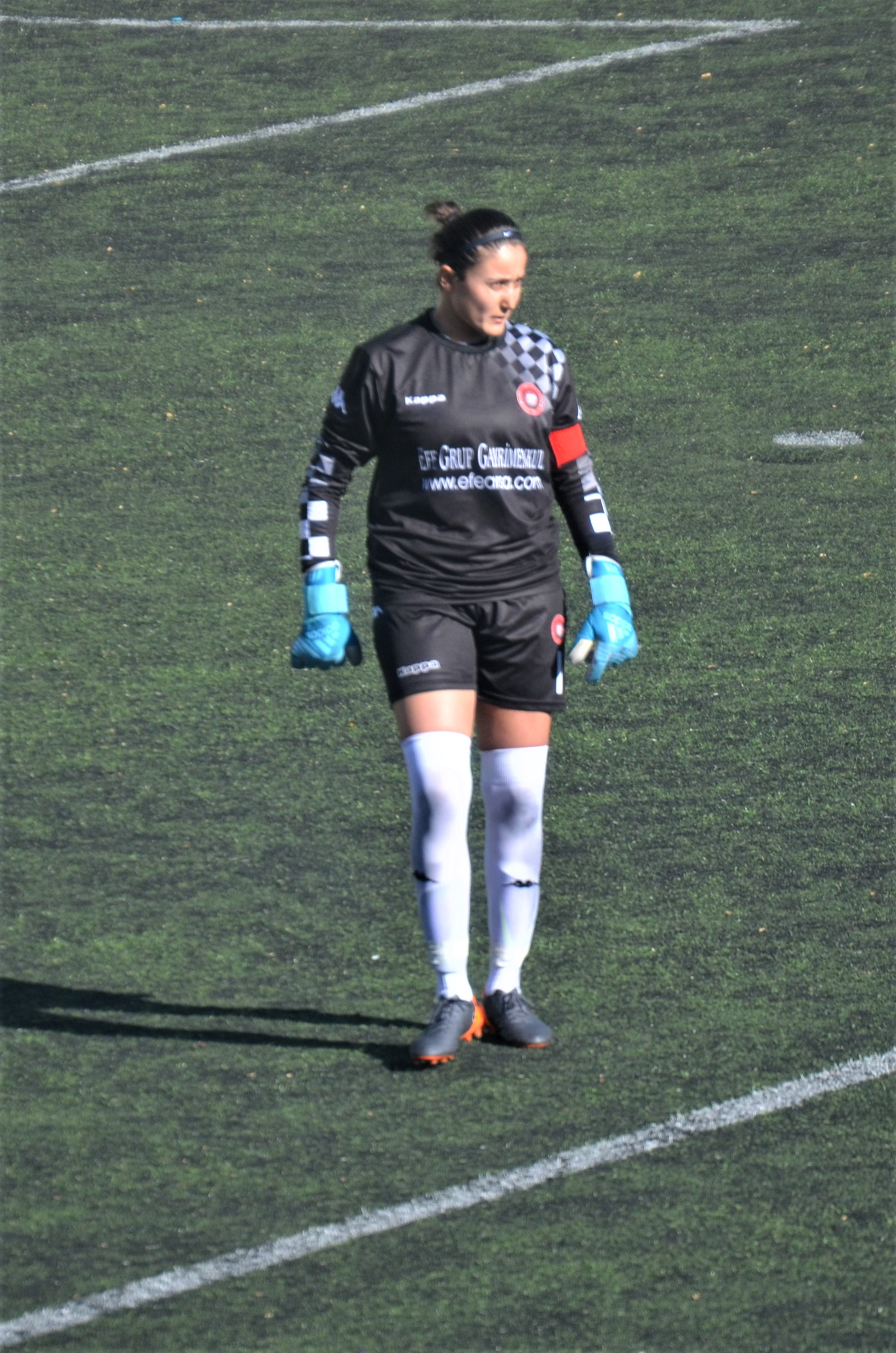 Özlem Gezer playing as team captain for Fatih Vatan Spor in the 2018-19 Turkish Women's First League.